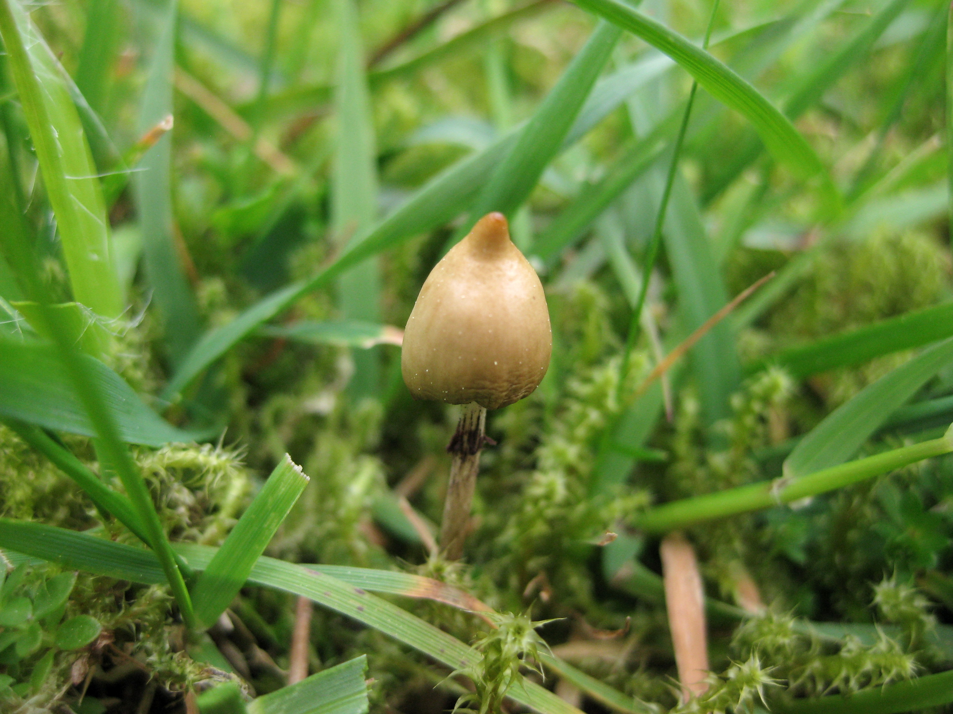 Psilocybe semilanceata (Fr.) P. Kumm. Image location: Bergen, Norway Recognized by sight For more information about this, see the observation page at Mushroom Observer.